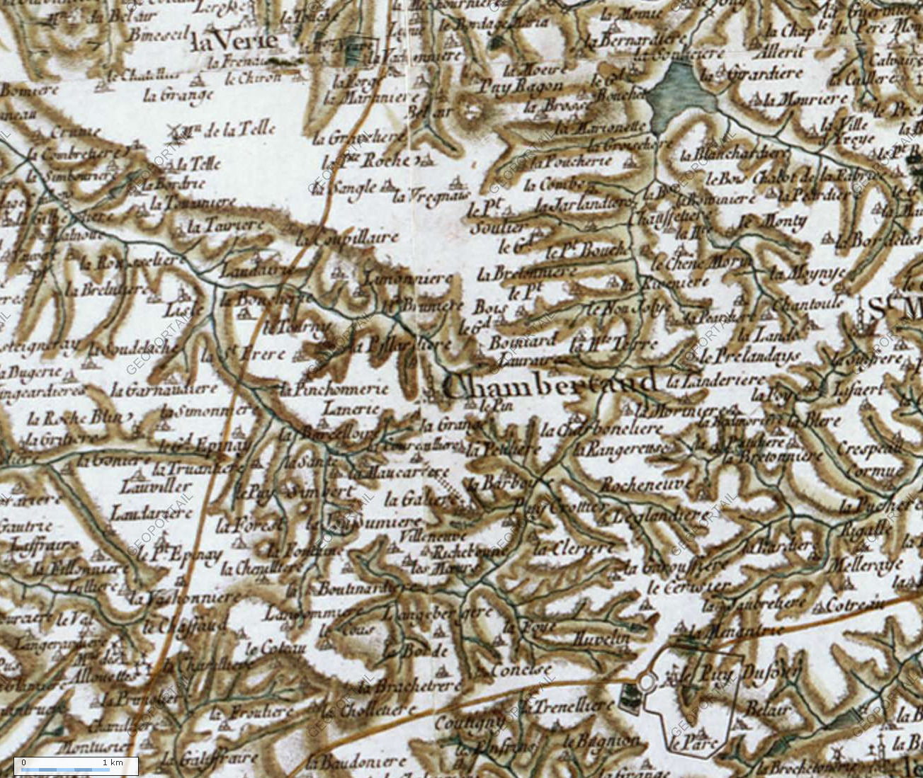 carte cassini chambretaud